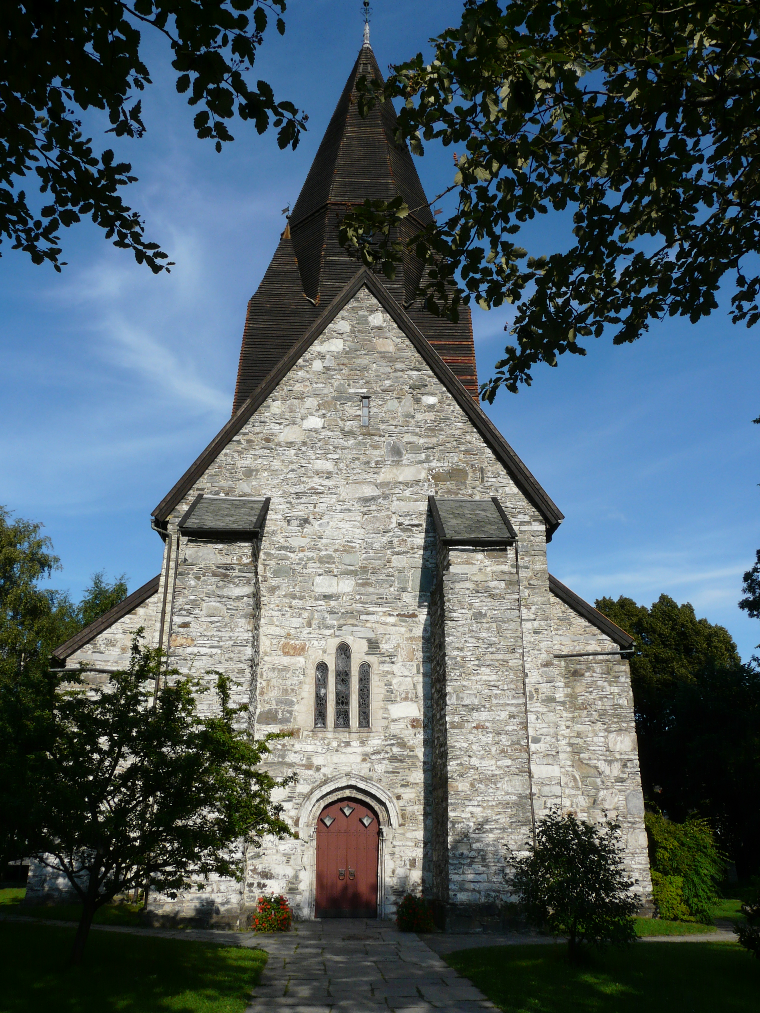 Church of Voss, font side